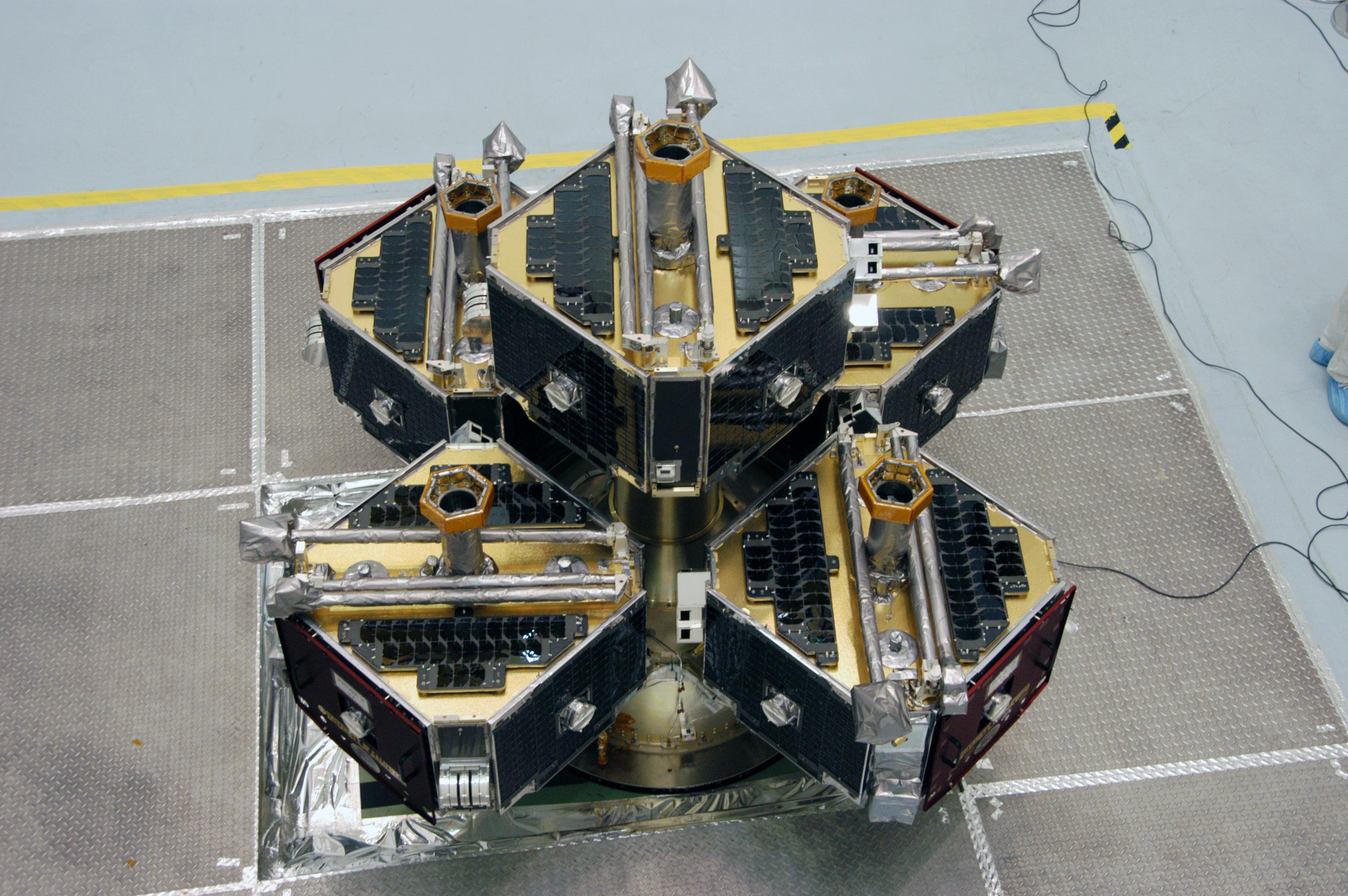 KENNEDY SPACE CENTER, FLA. -- At Astrotech Space Operations, the integrated THEMIS spacecraft is ready for spin-balance testing. THEMIS consists of five identical probes, the largest number of scientific satellites ever launched into orbit aboard a single rocket. This unique constellation of satellites will resolve the tantalizing mystery of what causes the spectacular sudden brightening of the aurora borealis and aurora australis - the fiery skies over the Earth's northern and southern polar regions. THEMIS is scheduled to launch Feb. 15 from Cape Canaveral Air Force Station.